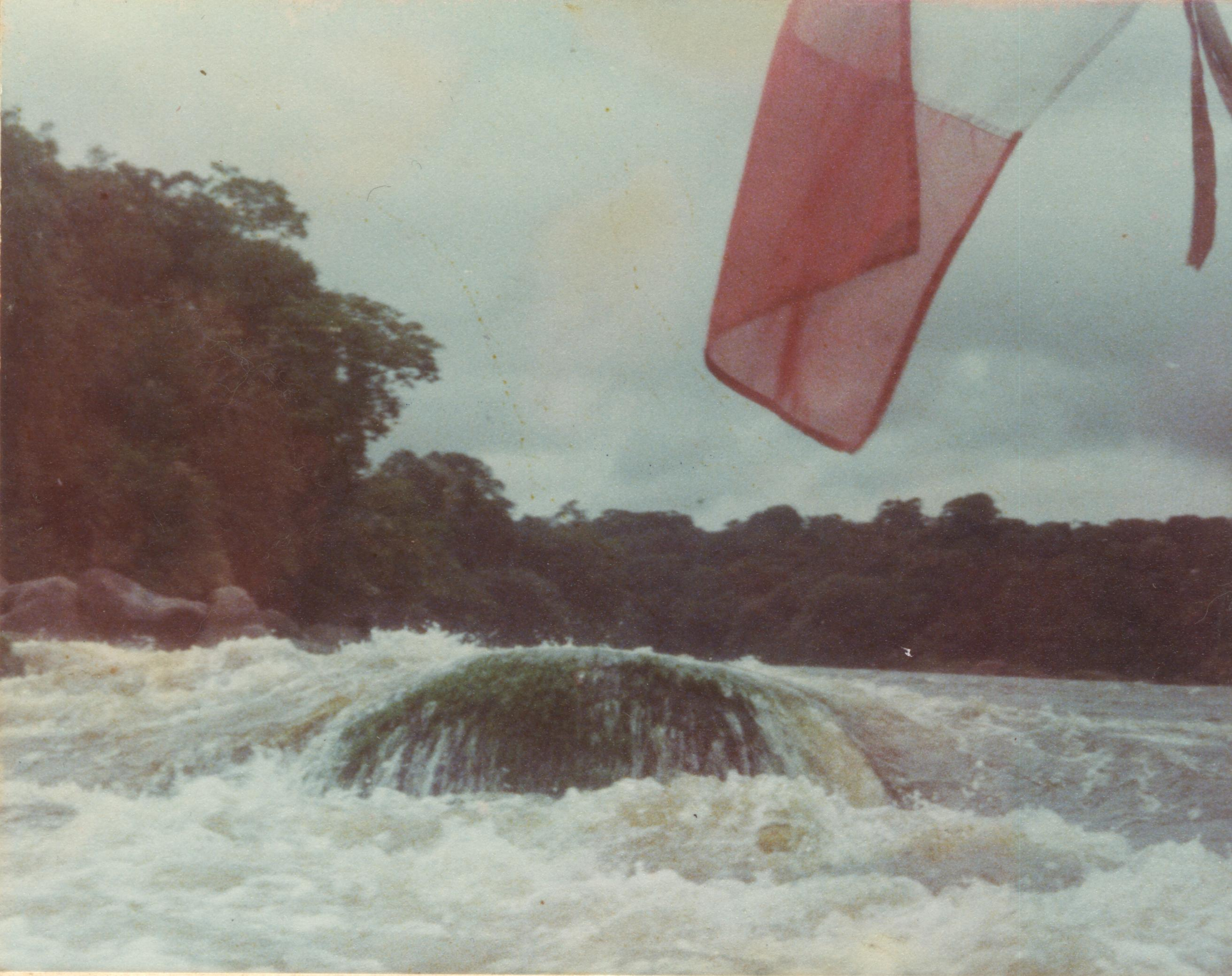 Photo taken in 1979. The French mission in French Guiana, on their way to the Wayana village of Antecume Pata, crossing the Léssé Dédé Falls of the Maroni River, one fall downstream of the town of Grand-Santi.